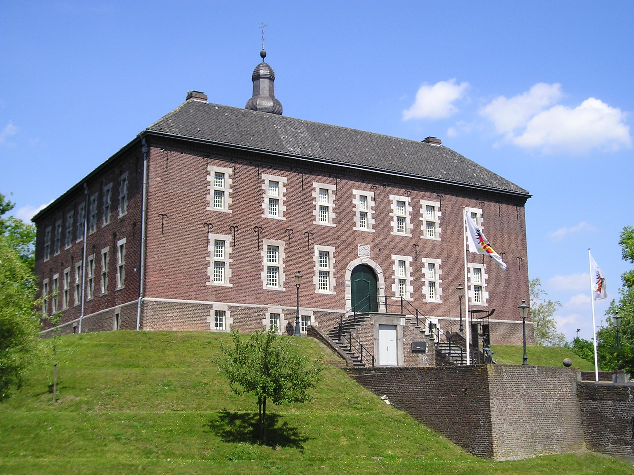 Castle Limbricht (Netherlands)